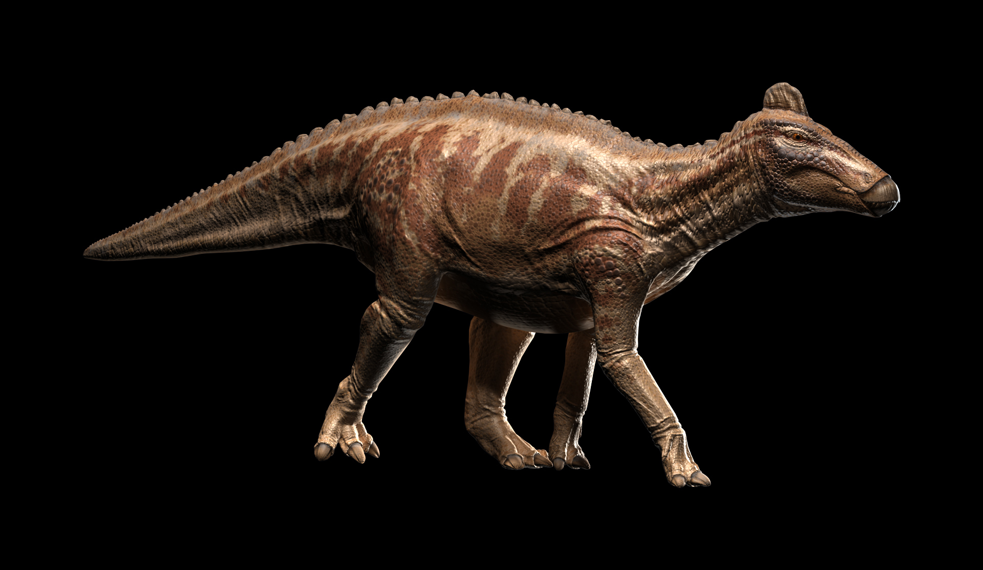 In coordination with the scientists from the Senckenberg Nature Museum, this Edmontosaurus was reconstructed 2019 in 3D.